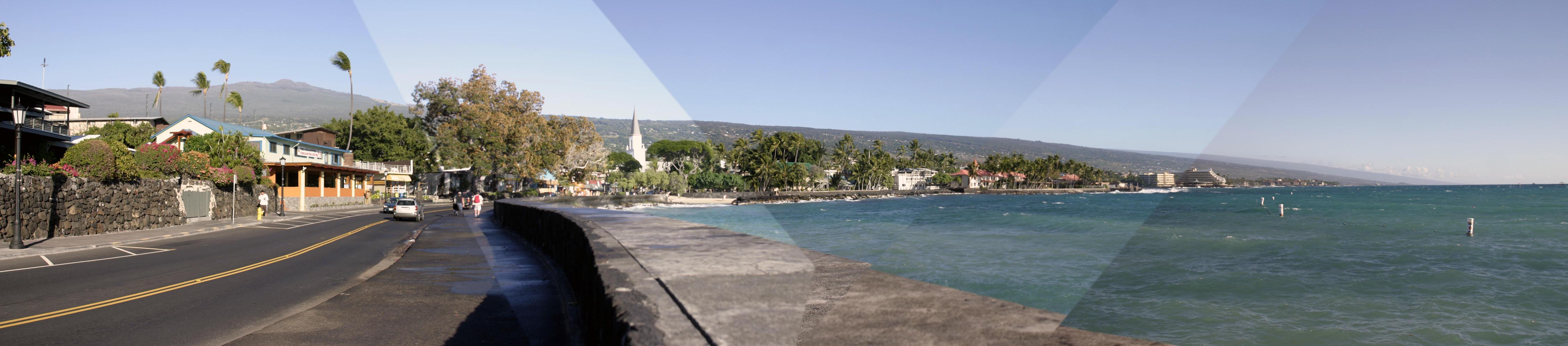 Panoramic view of Ali'i Drive in central Kailua-Kona in January 2007